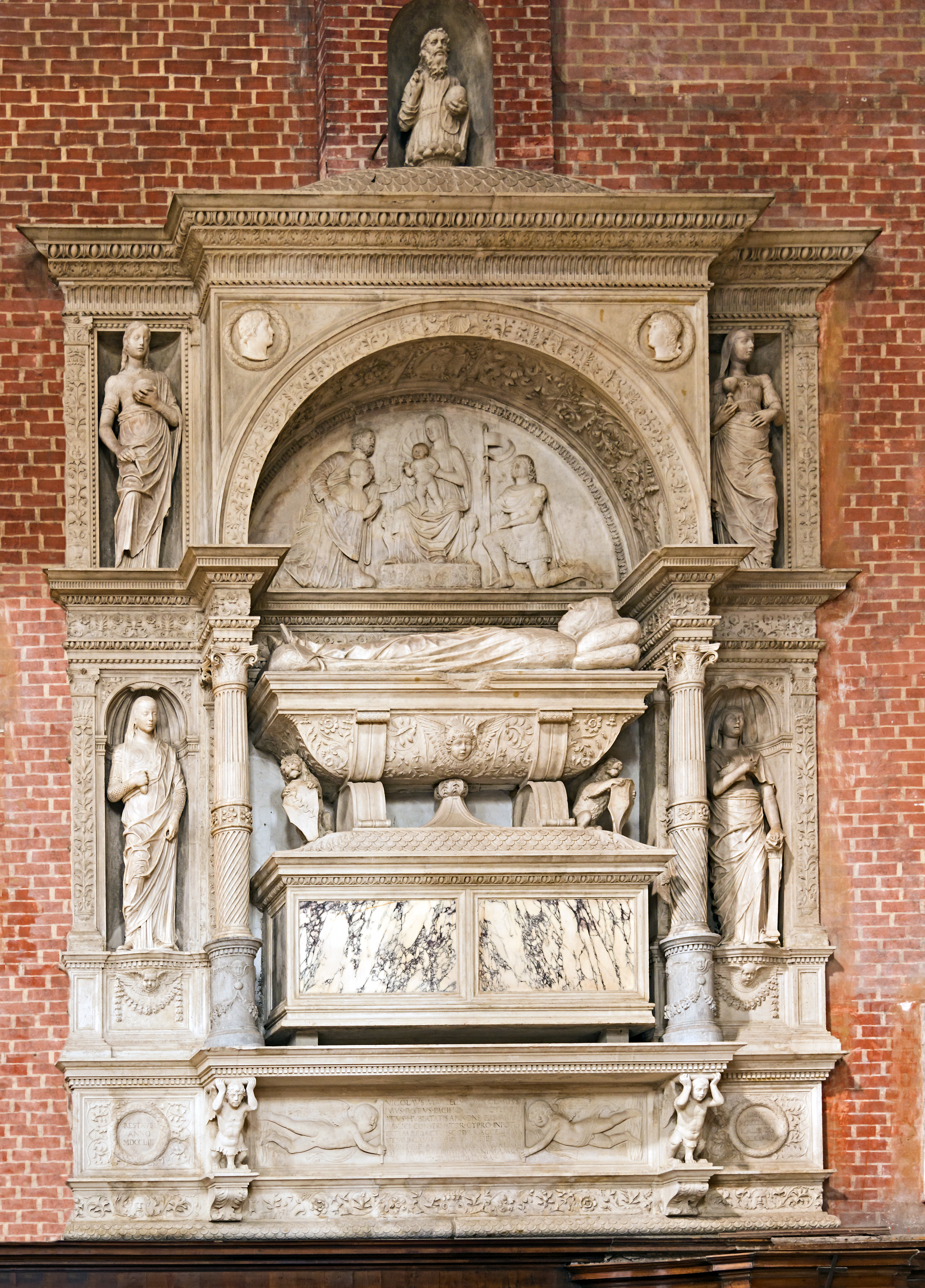 Santi Giovanni e Paolo in Venice, monument of the Doge Nicolò Marcello by Pietro Lombardo and Tullio Lombardo.